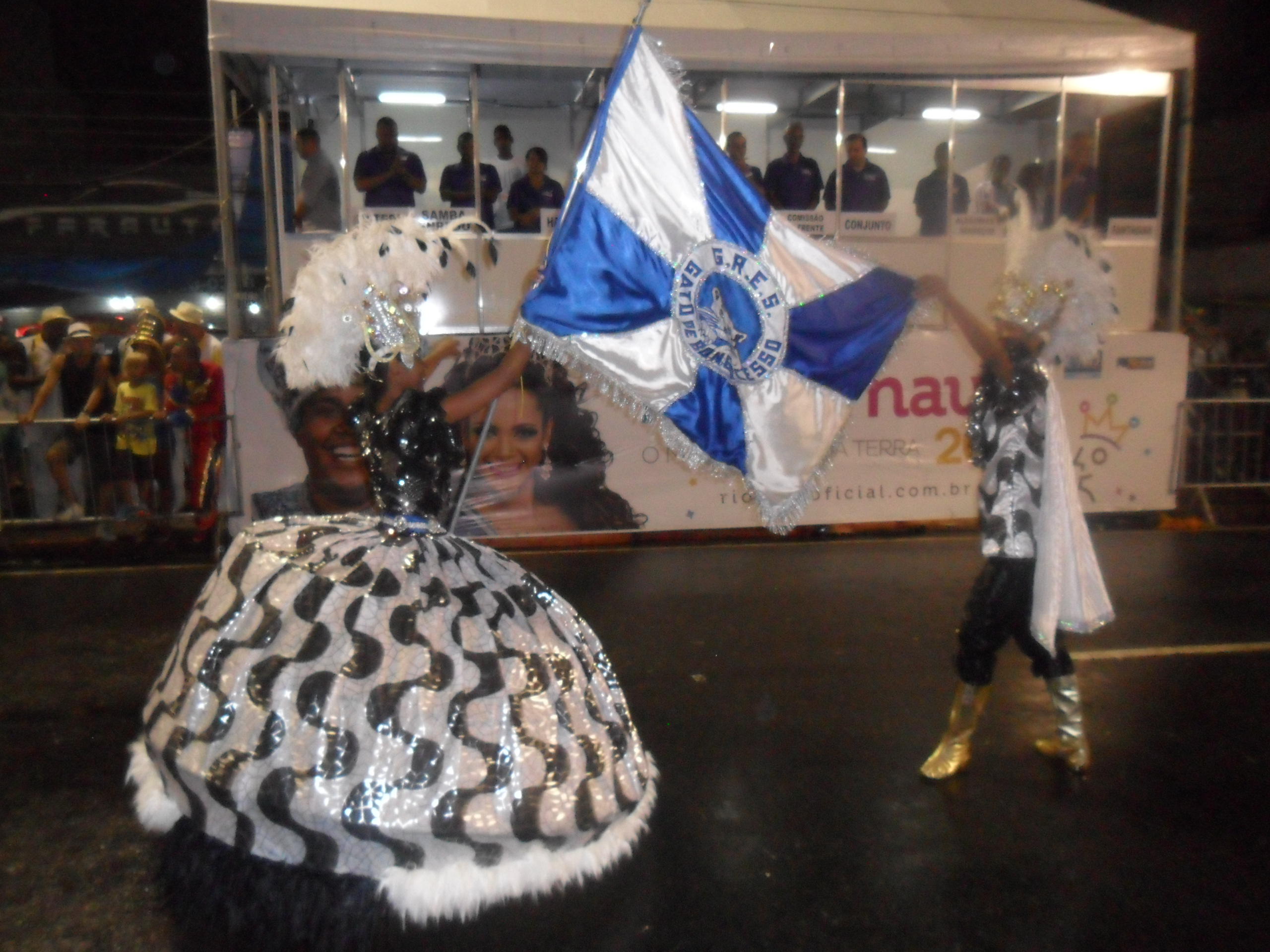 GRES Gato de Bonsucesso